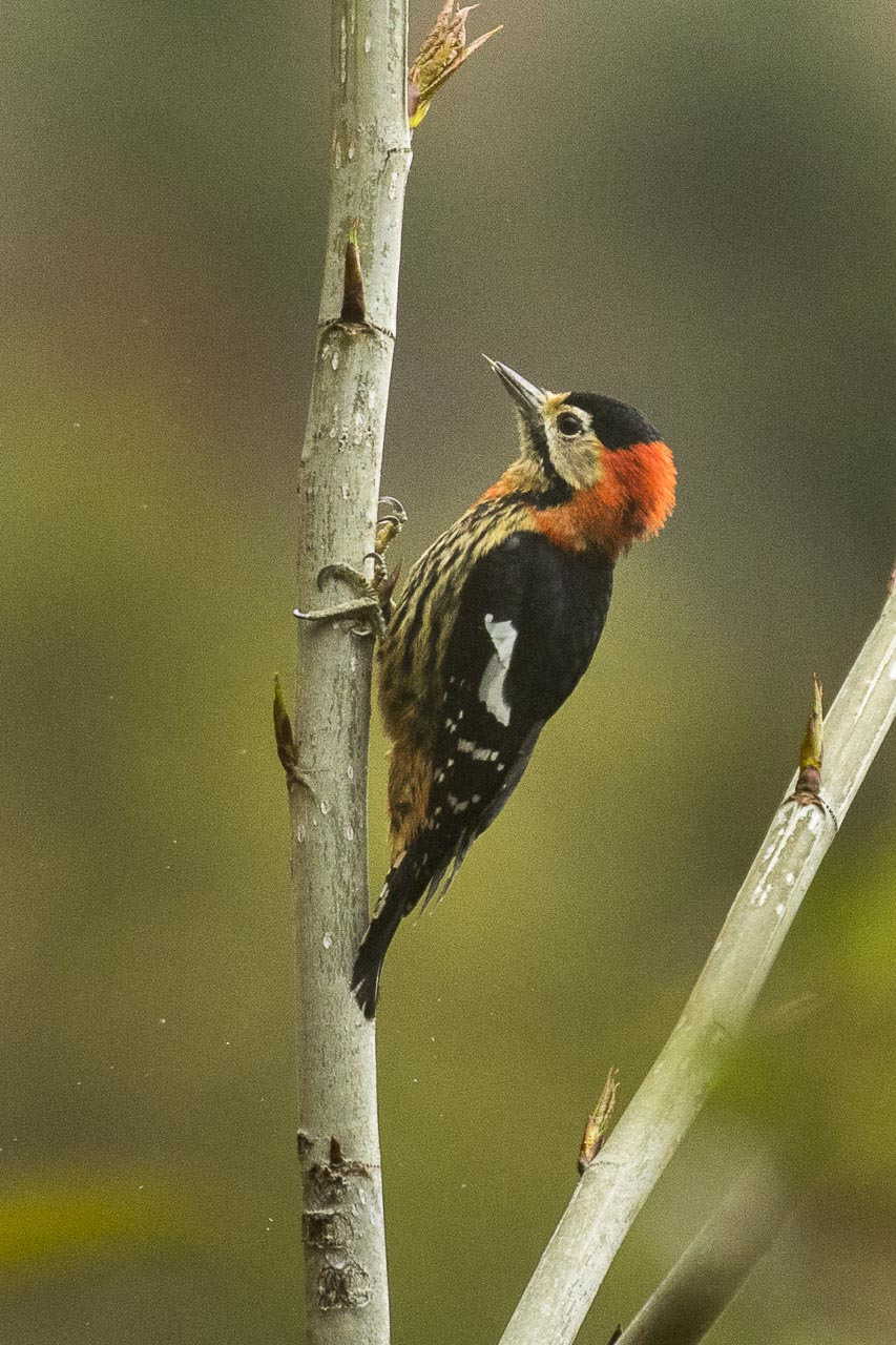 Crimson-breasted Woodpecker - Eaglenest - India_FJ0A1279